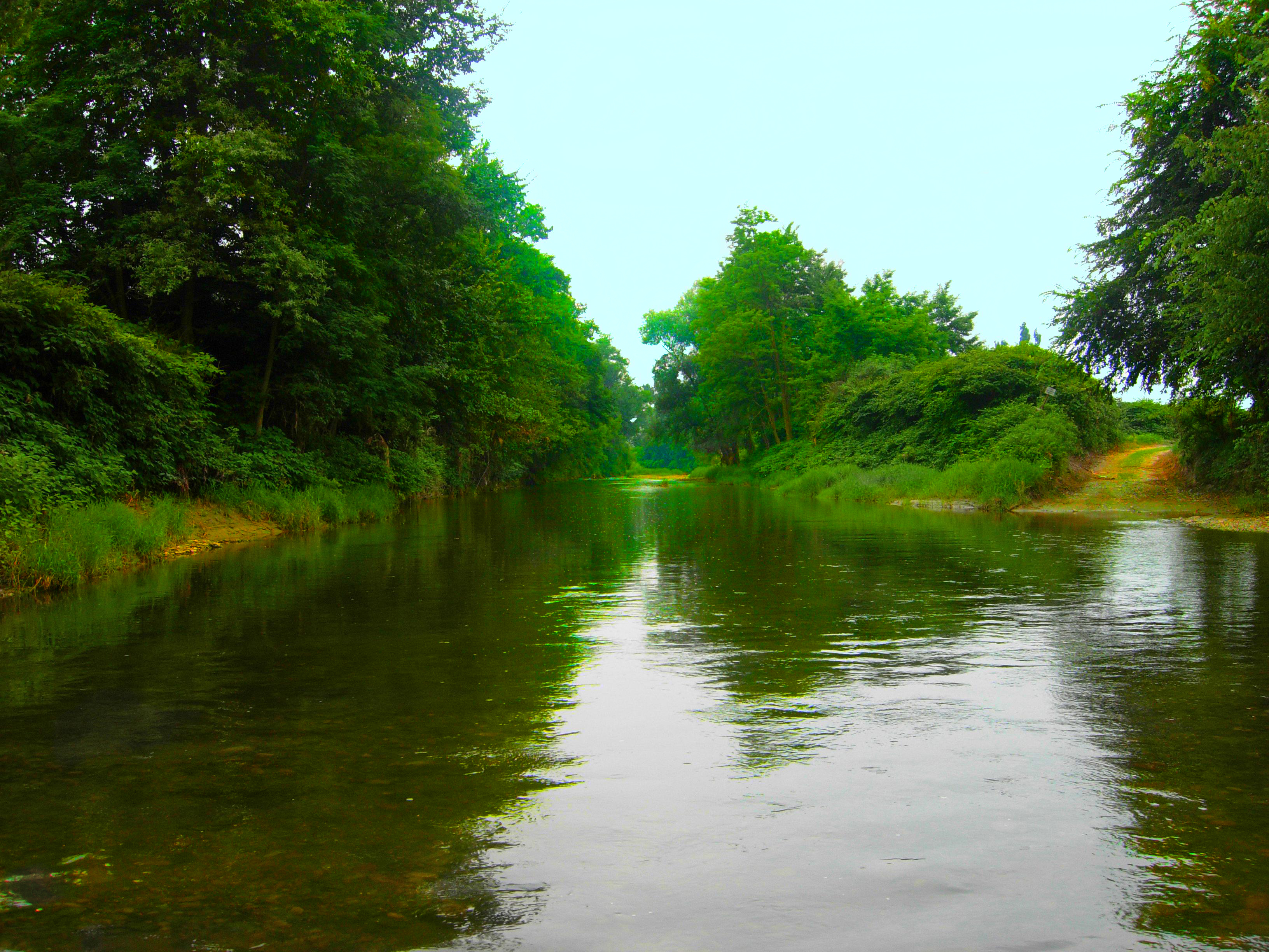 Ford between Cardè and Staffarda